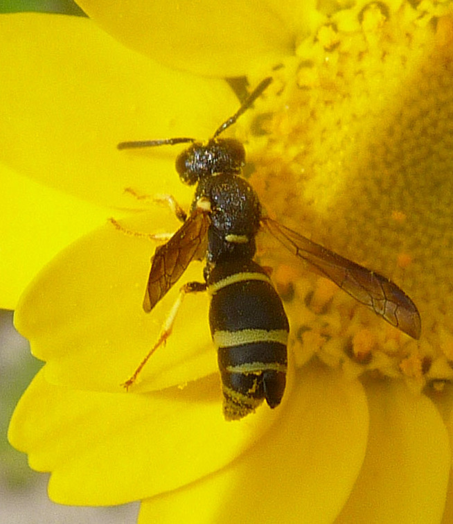 Most Strepsiptera (also known as twisted-wing parasites) live as internal parasites of bees, wasps, grasshoppers, leafhoppers, and other members of the order Hemiptera. Only a few species that parasitize bristletails (Archeognatha) are known to be free-living in the adult stage. Strepsiptera share so many characteristics with beetles that some entomologists classify them as a superfamily of Coleoptera. In fact, Strepsiptera and certain parasitic beetles (in the families Meloidae and Rhipiphoridae) are among the very few insects that undergo hypermetamorphosis, an unusual type of holometabolous development in which the larvae change body form as they mature. Upon emerging from their mother's body, the young larvae, called triunguloids, have six legs and crawl around in search of a suitable host. In species that parasitize bees or wasps, a triunguloid usually climbs to the top of a flower and waits for a pollinator. When a host arrives, the larva jumps aboard, burrows into its body, and quickly molts into a second stage that has no distinct head, legs, antennae or other insect-like features. These larvae grow and continue to molt inside the host's body cavity, assimilating nutrients from the blood and non-vital tissues. After pupating in the host, winged males emerge and fly in search of mates. An adult female remains inside her host, managing to attract and mate with a male while only a small portion of her body protrudes from the host's abdomen. Embryos develop within the female's body, and a new generation of triunguloid larvae begin their life cycle by escaping through a brood passage on the underside of her body. Adult male Strepsiptera are strange-looking insects. The head is small, with protruding compound eyes that look like tiny raspberries. The antennae are multi-segmented and have up to three branches. Front wings are reduced to small, club-like structures; hind wings are very large and fan-shaped.